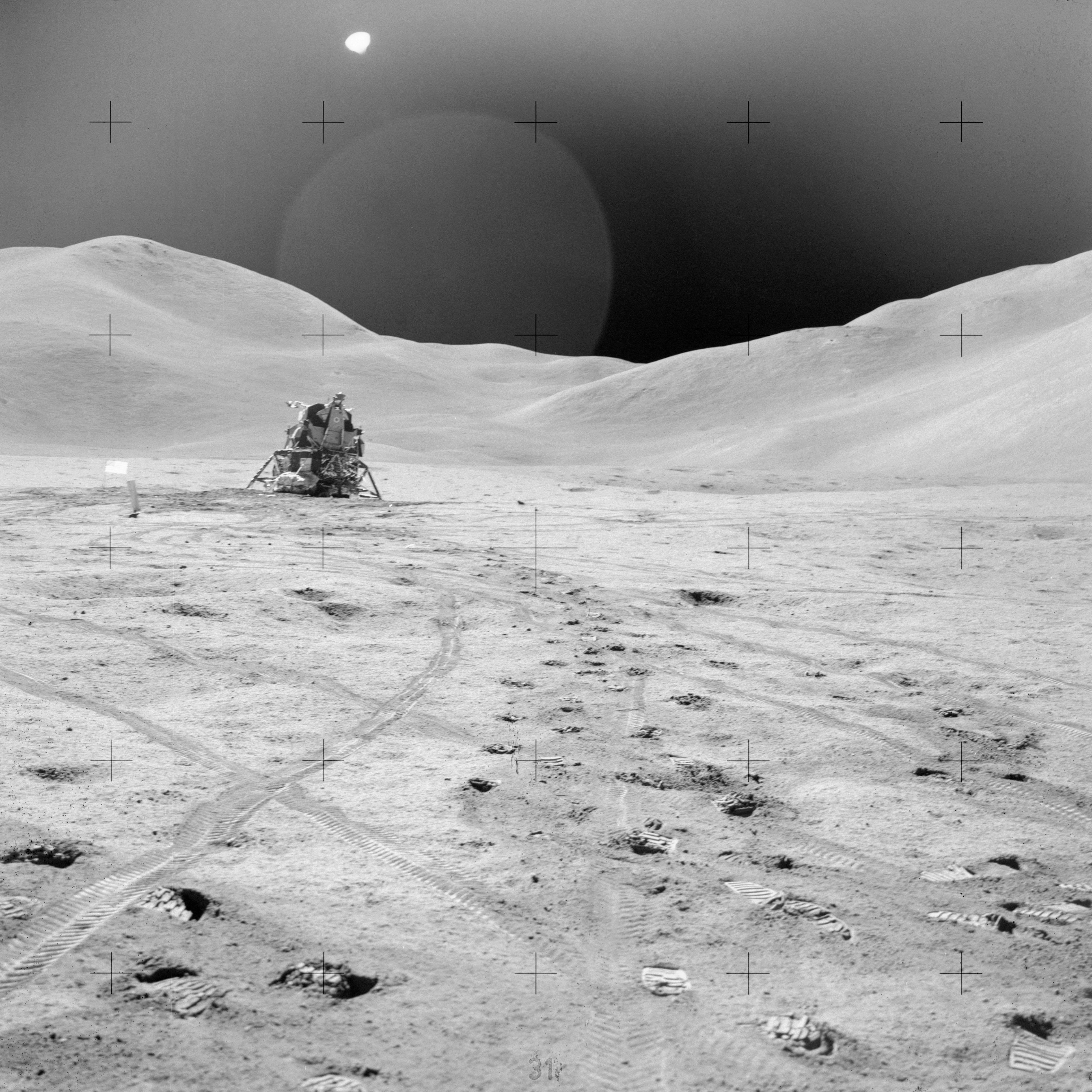 AS15-82-11057 (2 Aug. 1971) --- The Lunar Module (LM) "Falcon" is photographed against the barren lunarscape during the third Apollo 15 lunar surface extravehicular activity (EVA) at the Hadley-Apennine landing site on the lunar nearside. This view is looking southeast. The Apennine Front is in the left background; and Hadley Delta Mountain is in the right background. The object next to the United States flag is the Solar Wind Composition (SWC) experiment. Last Crater is to the right of the LM. Note bootprints and tracks of the Lunar Roving Vehicle (LRV). The light spherical object at the top is a reflection in the lens of the camera. While astronauts David R. Scott and James B. Irwin descended in the LM to explore the moon, astronaut Alfred M. Worden remained with the Command and Service Modules (CSM) in lunar orbit.